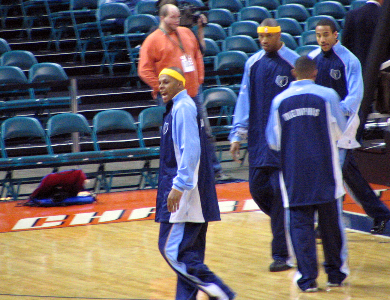 Bonzi Wells warms up with some Memphis Grizzlies before the start of a 2005 Bobcats game in Charlotte, NC.